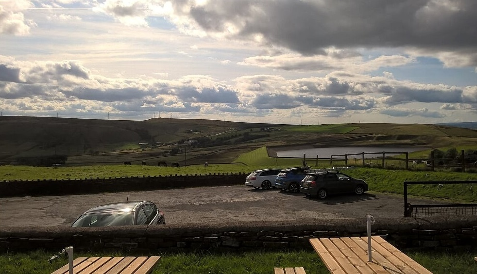 An image overlooking Saddleworth Moor, taken 7 September 2019 outside The Rams Head Inn, Denshaw.